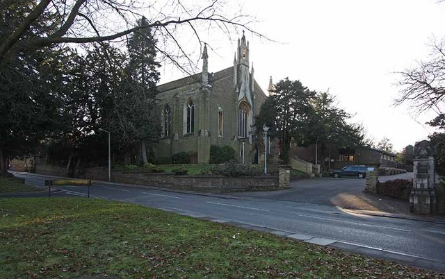 St Paul's Church, Winchmore Hill, London N21, near to Southgate, Enfield, Great Britain.